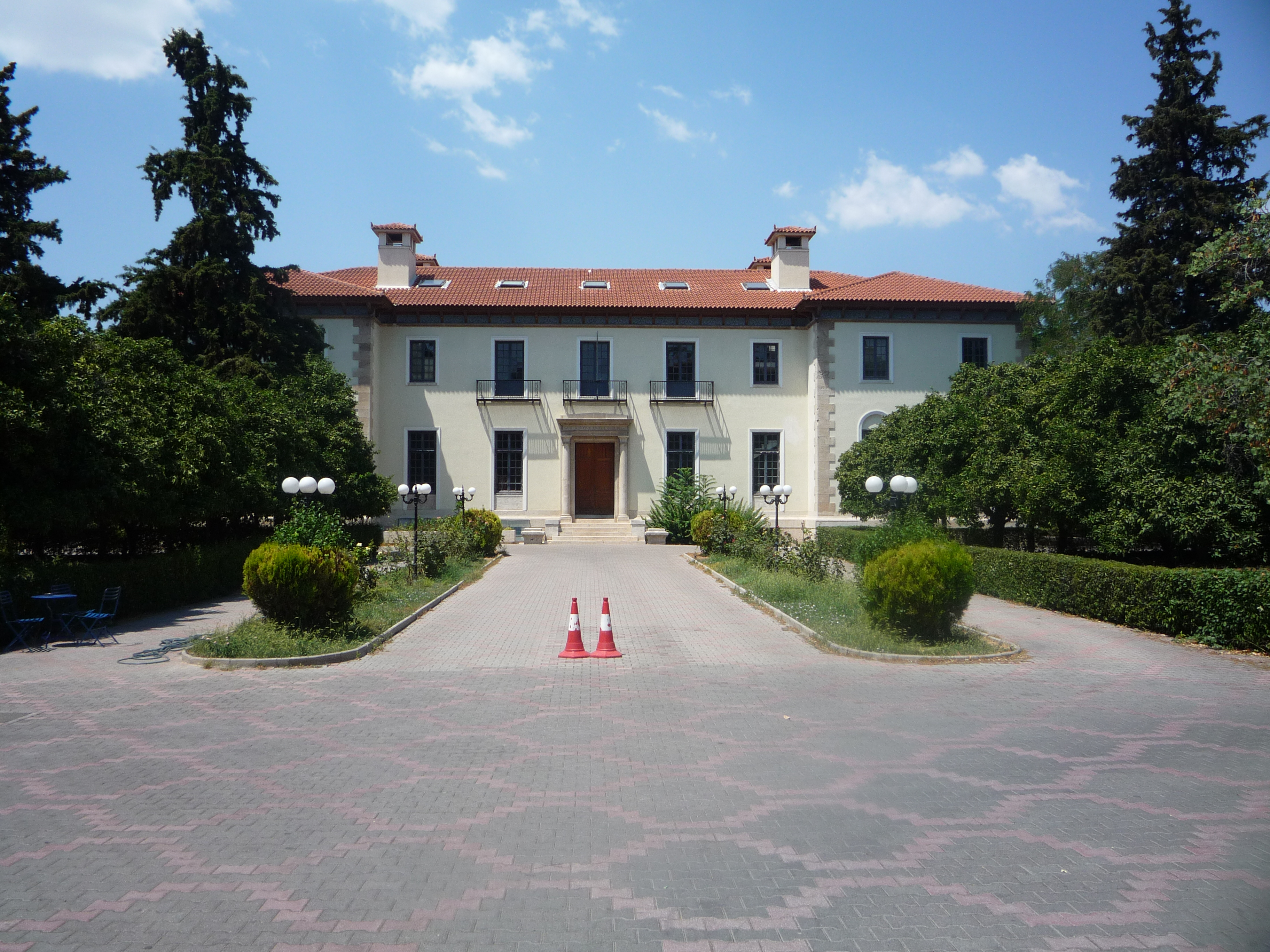 Charokopeio University, Kallithea, Attica, Greece